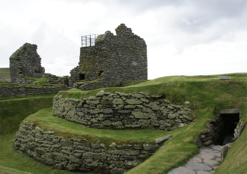 Jarlshof, Shetland, Scotland - Sumburgh House and broch